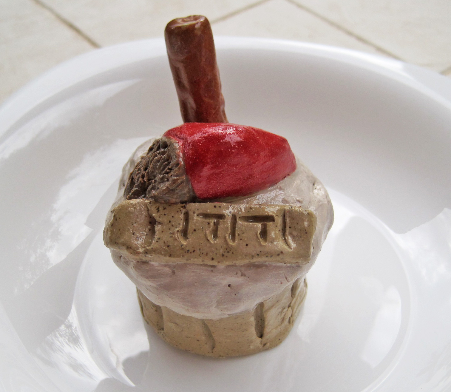 Clay Cupcake